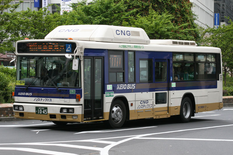 Keio Dentetsu Bus's route bus (Car No.D40341 / Nissan Diesel UA KL-UA452KANkai CNG / NSK 96MC body) at Shinjuku Station West Exit, Shinjuku-ku, Tokyo, Japan.